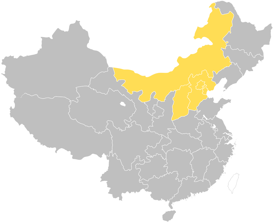 Huabei northern provinces of China